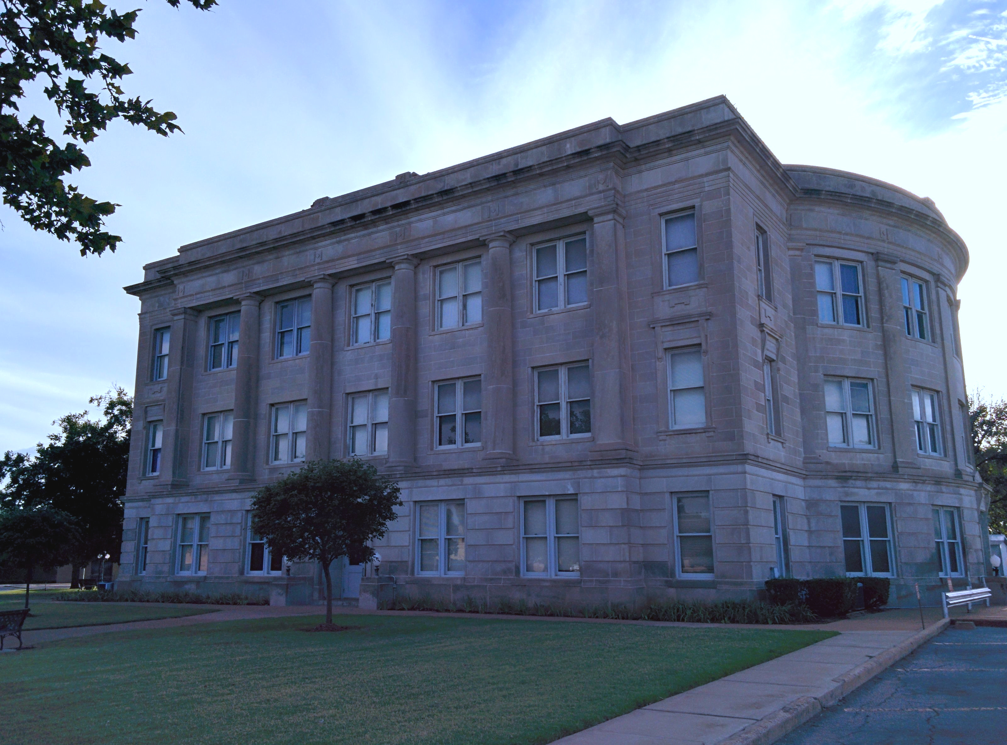 Tillman County Courthouse